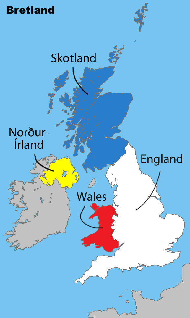 Map of the United Kingdom with labels in Icelandic.